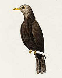 Norfolk Island Thrush (Turdus poliocephalus poliocephalus) from album of watercolour drawings of Australian natural history, owned by Robert Anderson Seton, (ca.1800).